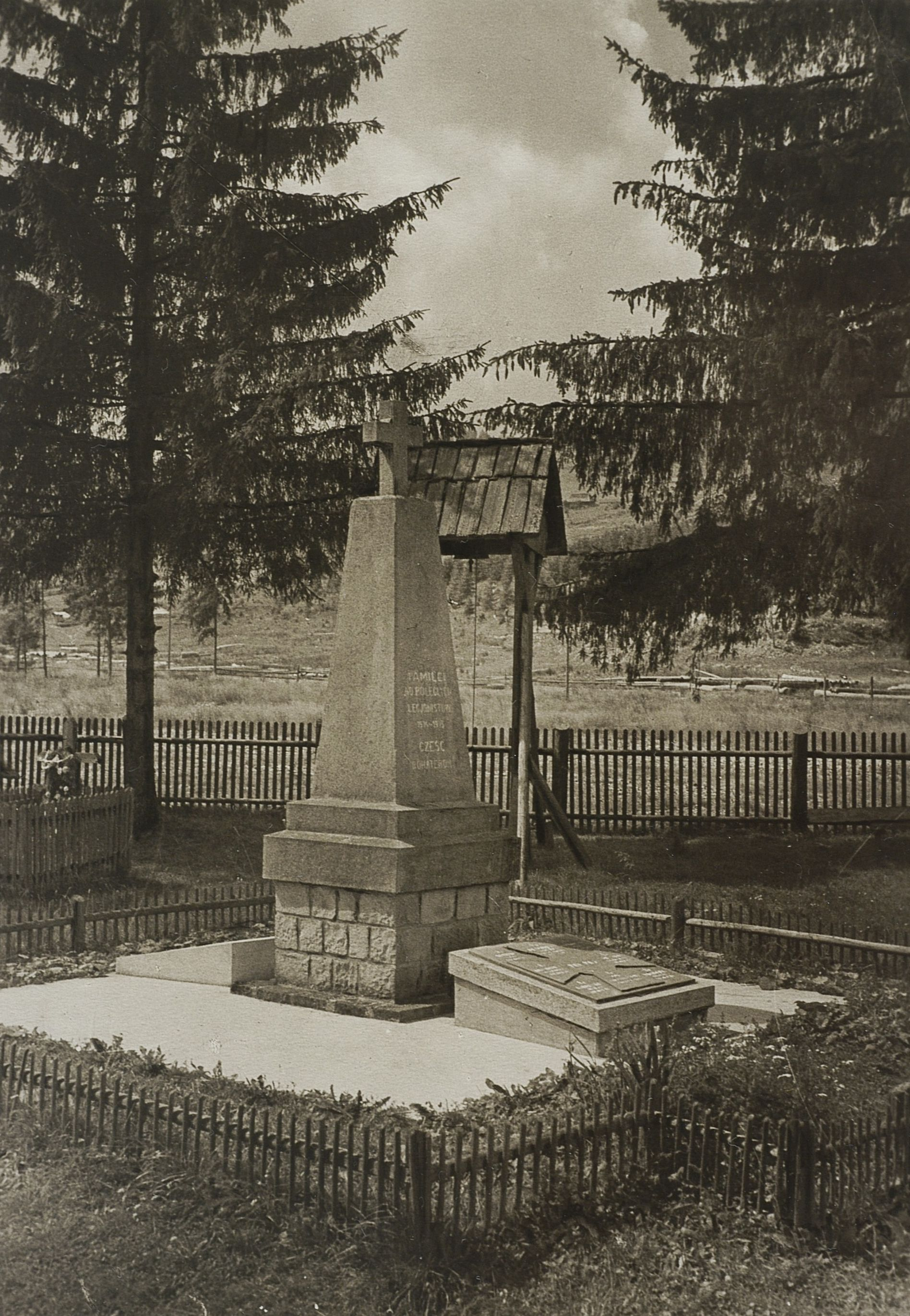 Tomb of the Polish Legions in Rafajlova.